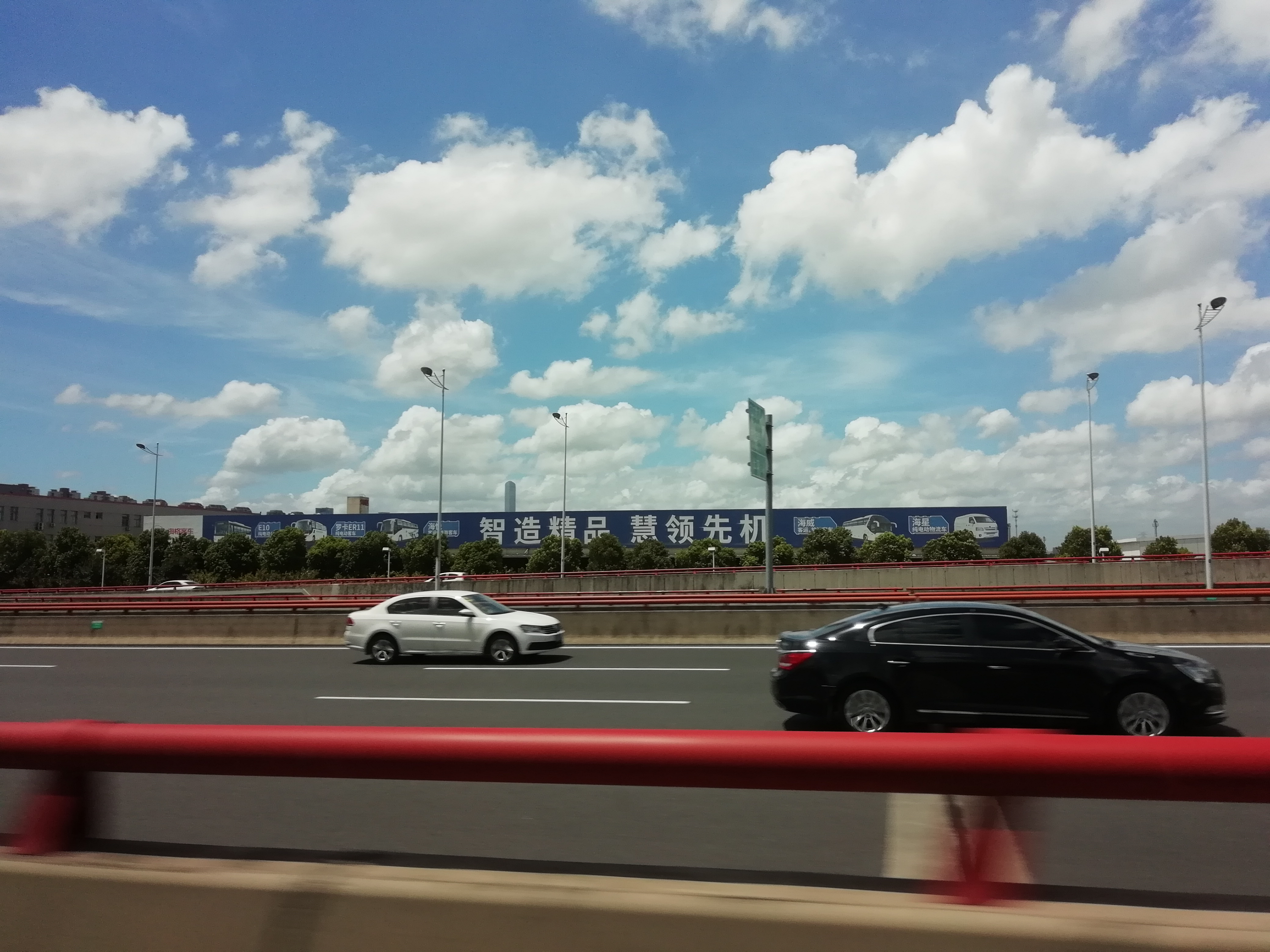 Headquarters of Higer Bus, located on East Suhong Road, Suzhou Industrial Park. Today is a beautiful day, and the air quality index (AQI) is...only 24! 中文（中国大陆）: 苏州金龙（海格客车）总部及厂区所在地，位于苏州工业园区苏虹东路